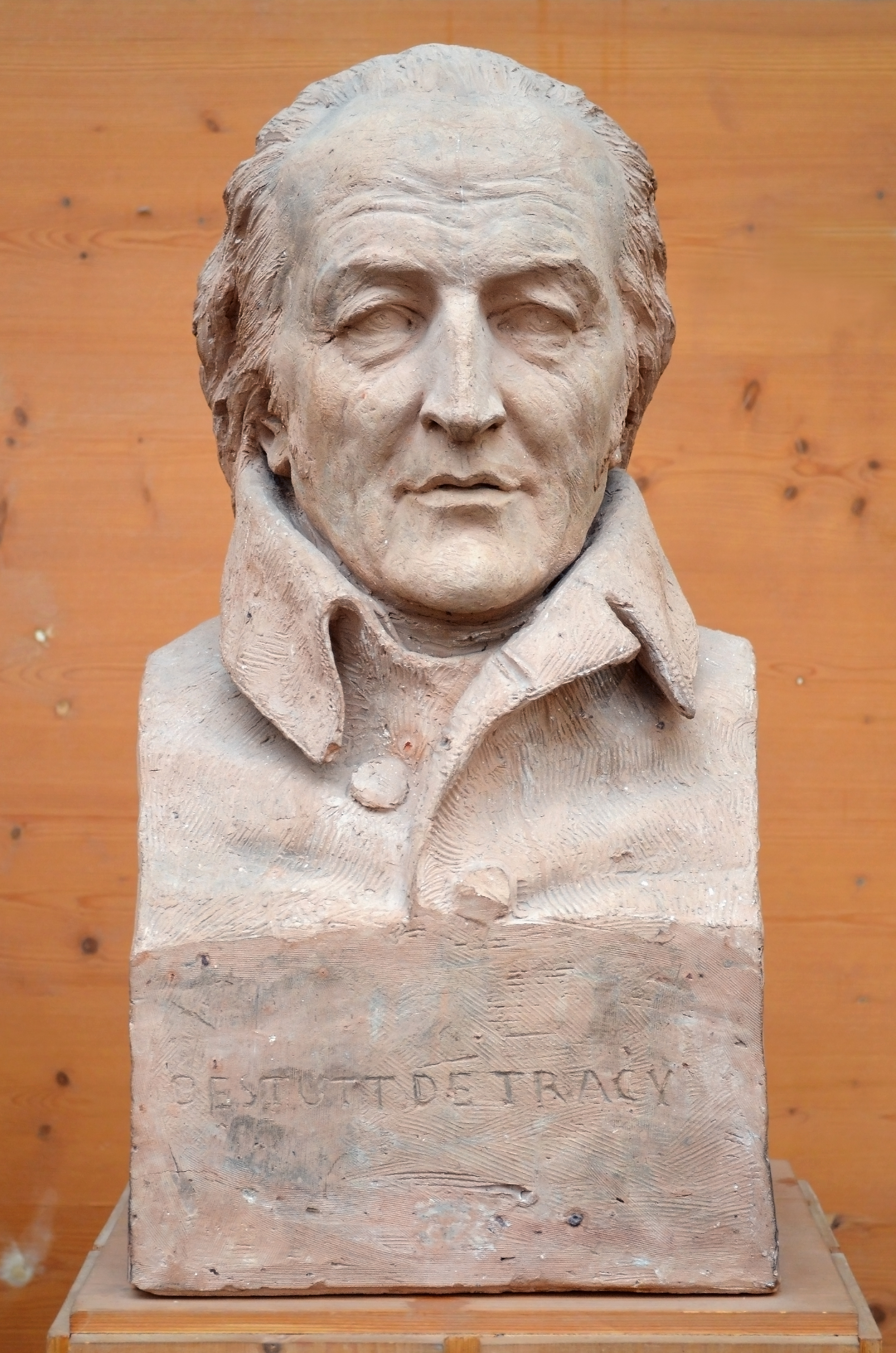 Bust of Destutt de Tracy by french sculptor David d'Angers (1837). Exhibited in David d'Angers gallery, Angers, France